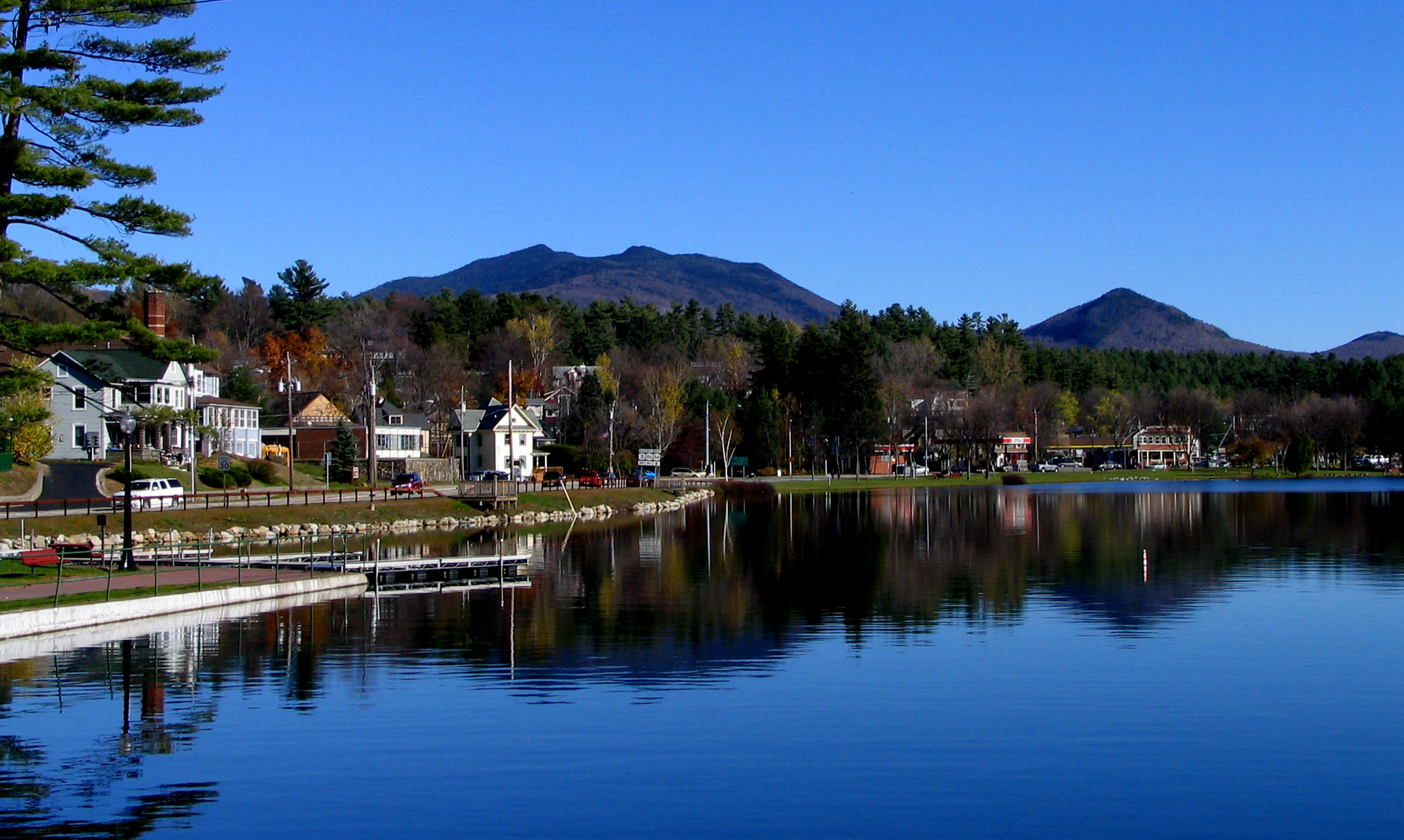 McKenzie Mountain (left) and Haystack Mountain from Lake Flower in Saranac Lake, New York.